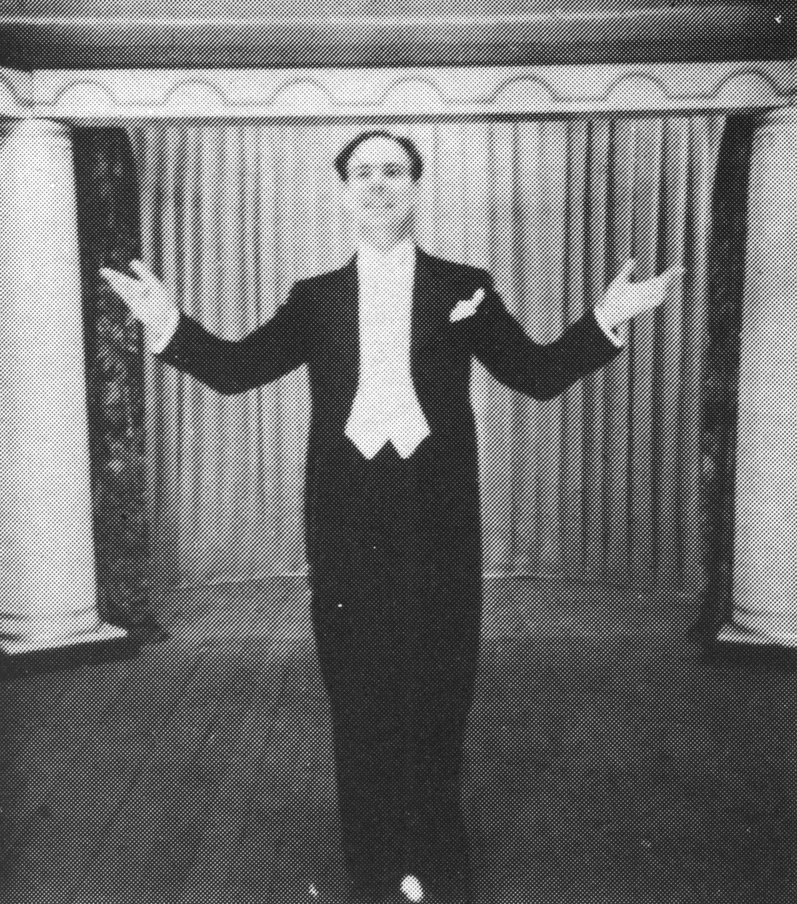 Finnish theater director Bjarne Commondt.